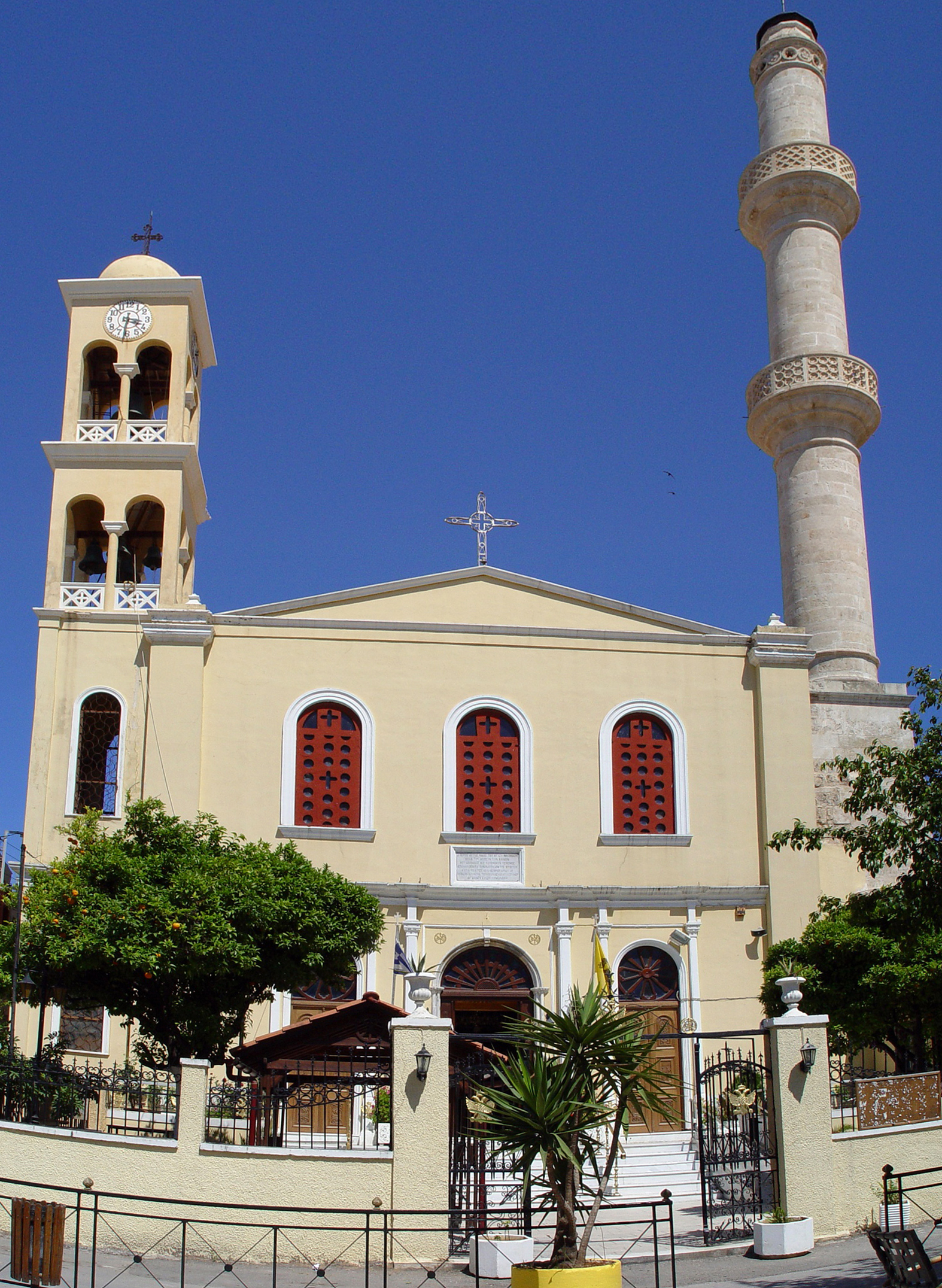 Greece, Crete, Hania, church Agios-Nikolaos with tower and minaret